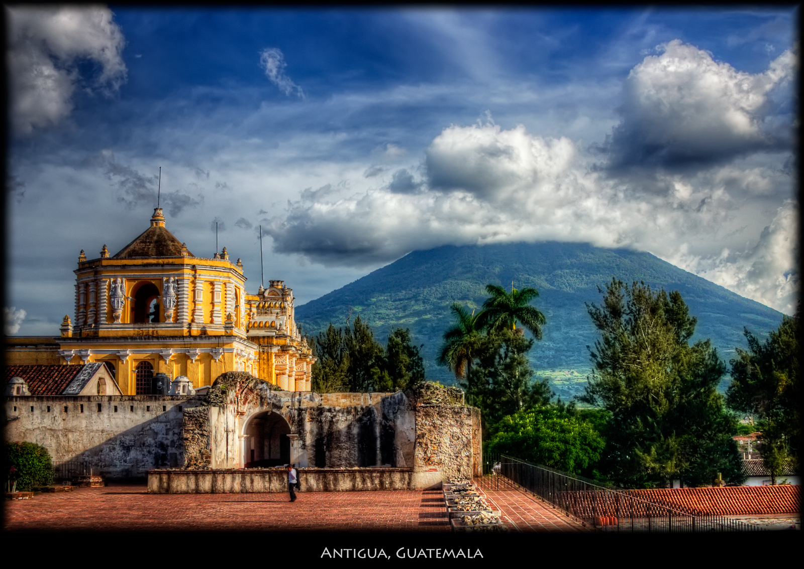 Volcan de Agua (Water Volcano) is one of three volcanos surrounding Antigua. I think the yellow building is one of the famous convents, and would appreciate it if someone tags the right name. This is pretty much what you come to Antigua for, beautiful buildings, the incredible surroundings and nice, friendly people. Nicer large.. See my Tikal shots. ISO 100, 28mm, f7.1, 1/100. Tonemapped in Photomatix using Details Enhancer. Nik Pro Contrast, Tonal Contrast on the church and volcano, Vivezza to brighten the sky.